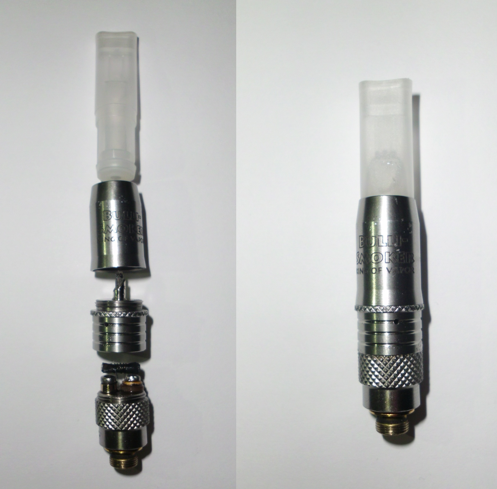 Rebuildable vaporizer for electric cigarettes